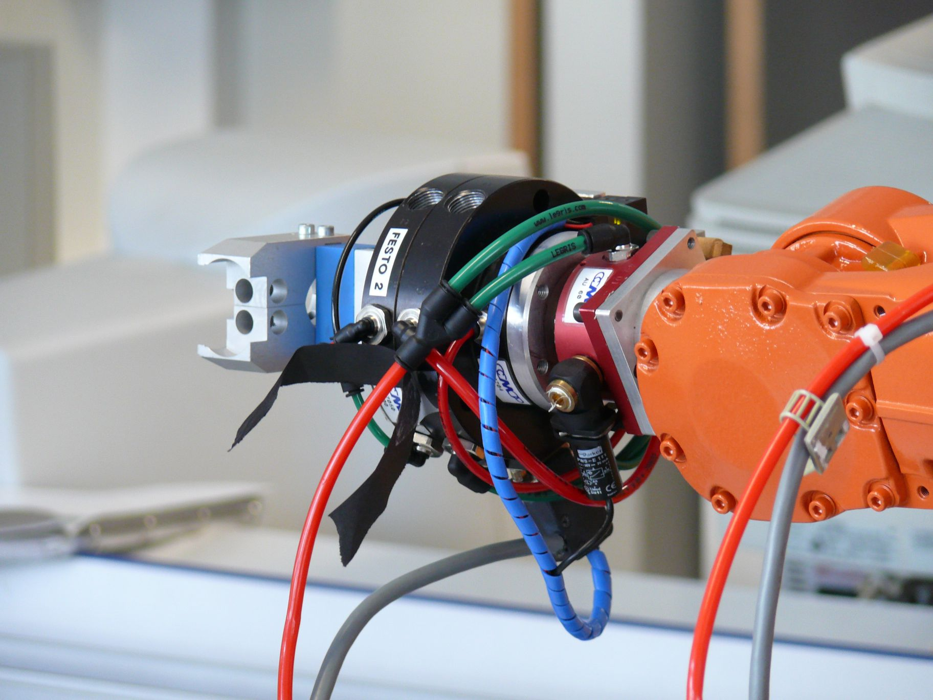 ABB industrial robot in Villeneuve-d'Ascq (Nord-Pas-de-Calais, France).